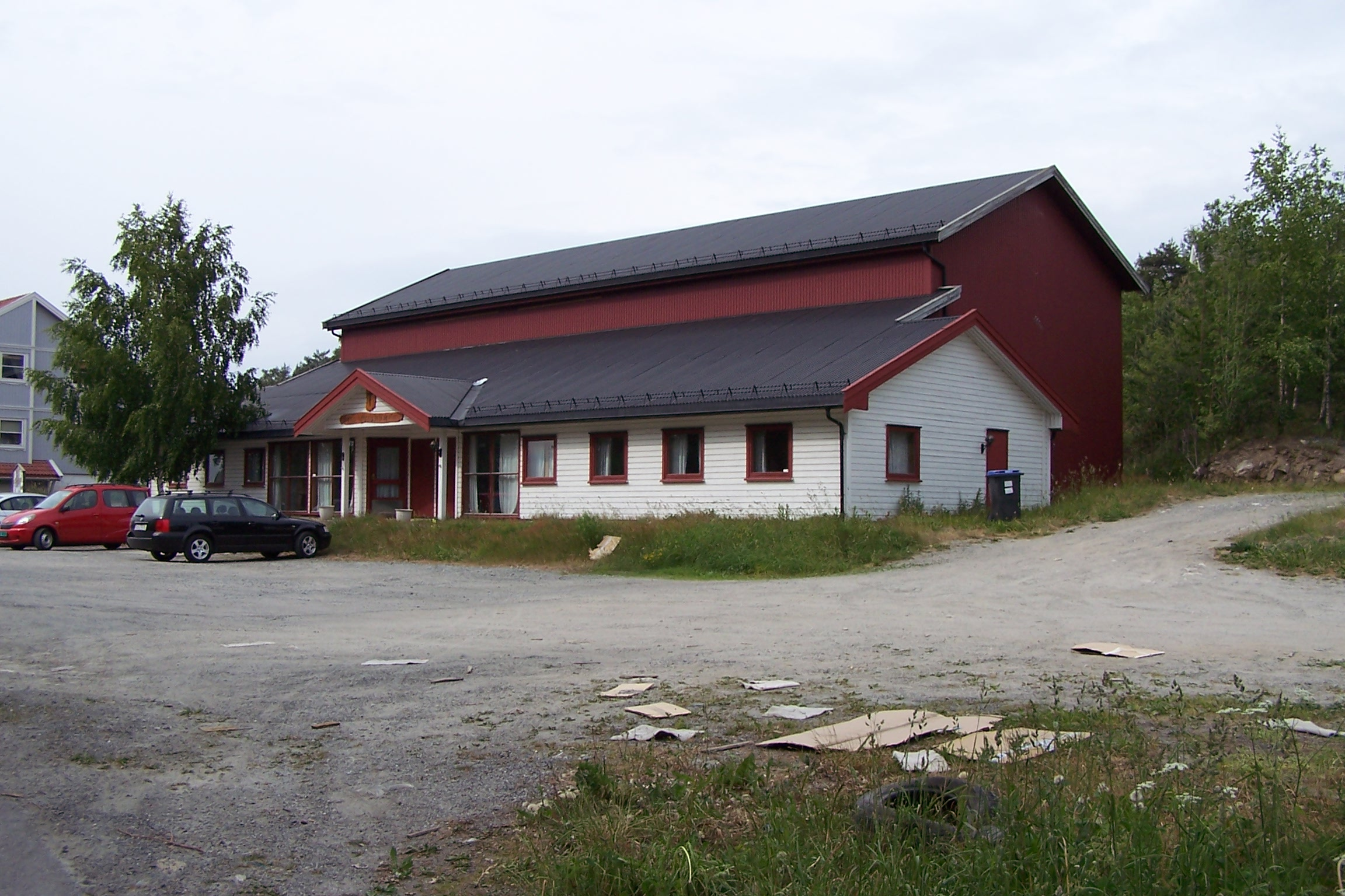 Son, Norway: Såner parochial hall, formerly the lumberyars Son Trelast